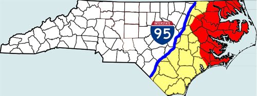 Using many examples at and I have made a map based on Piedmonttriadarea.PNG image created by me of the Inner Banks area that is most accepted. Red areas show the most commonly branded Inner Banks area. Orange areas show where the "Inner Banks" term i sometimes used. Interstate 95 marks the western border of the Inner Banks based in the Wikipedia Article. Carteret County is not included because it is called and/or marketed as the "Crystal Coast".